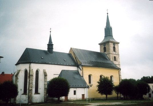 Village of Destna, District Jindrichiv Hradec, St Otton Church